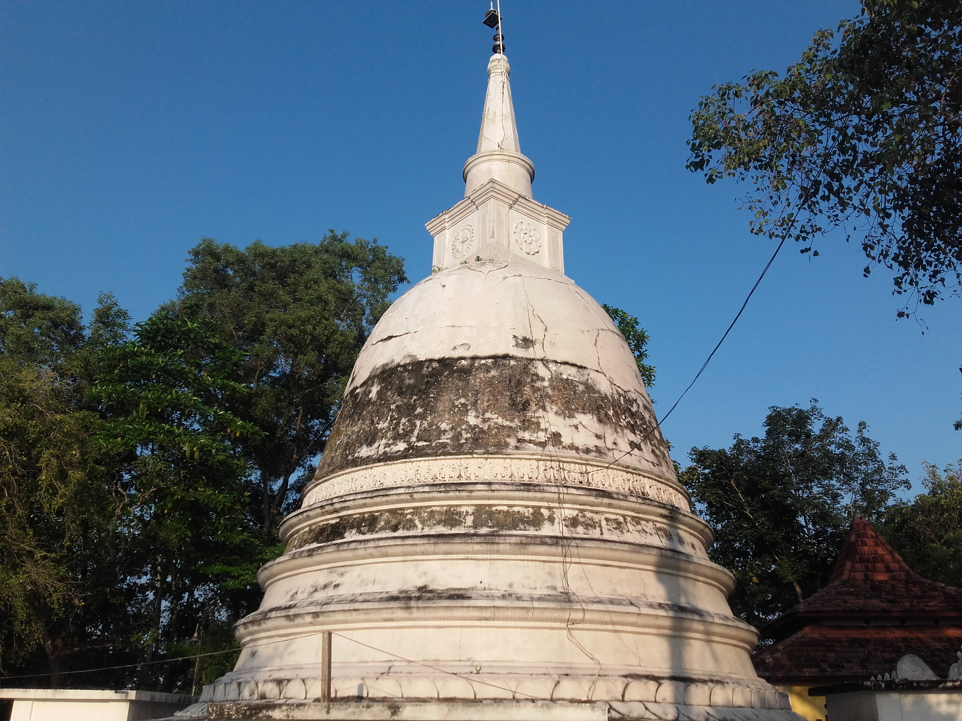 Pagoda of the temple